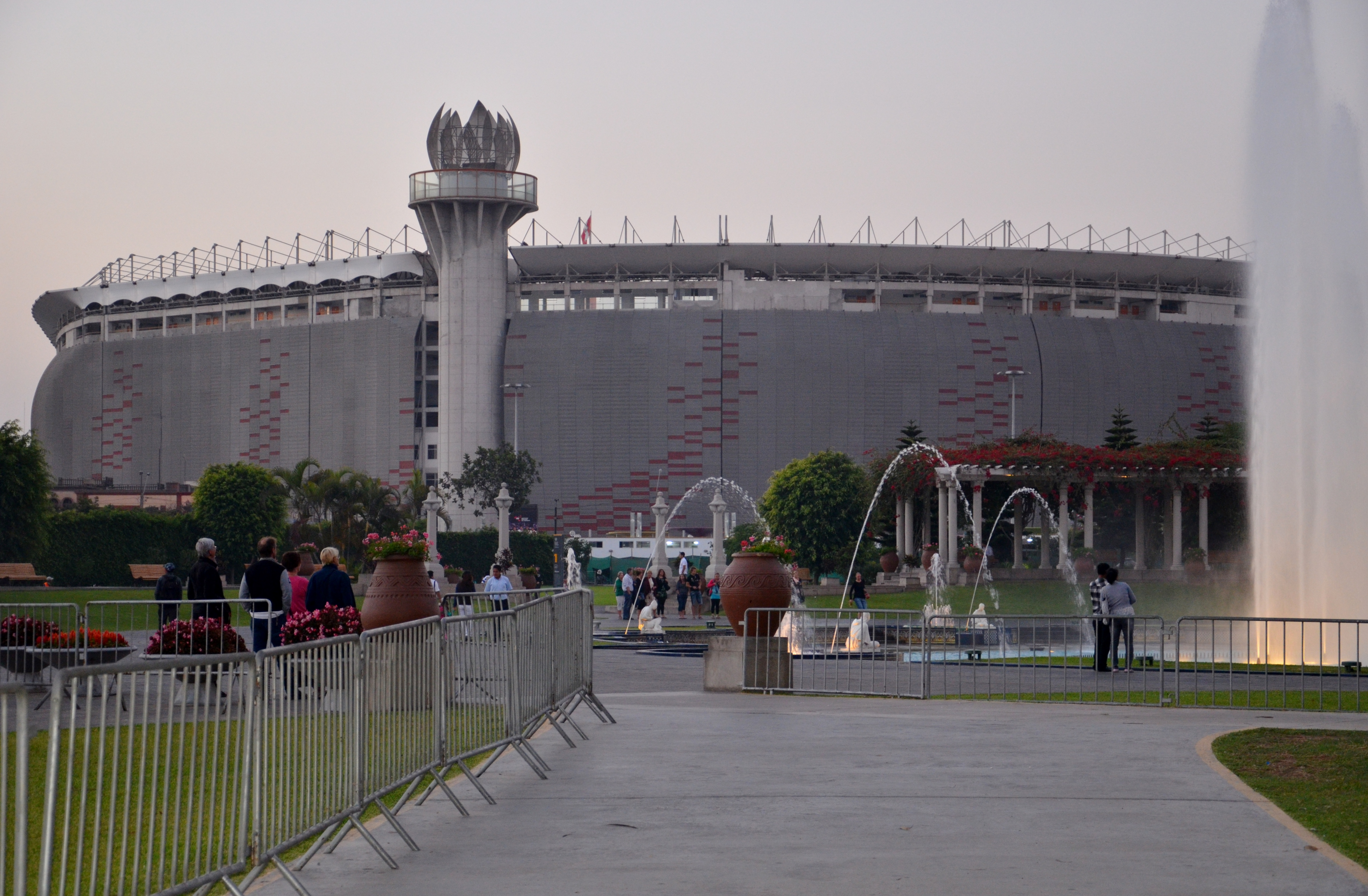 Estadio Nacional de Lima.